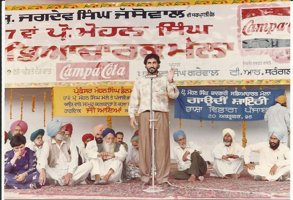 panjabi writer